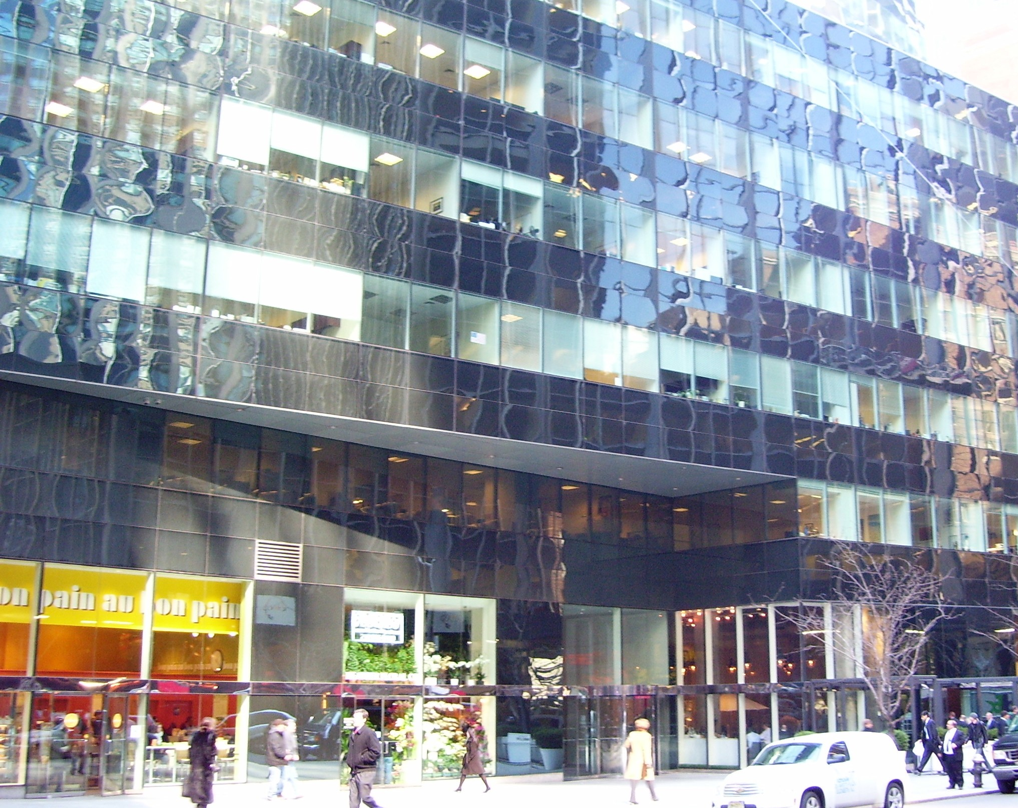 The street facade of 125 West 55th Street, between the Avenue of the Americas (Sixth Avenue) and Seventh Avenue in Midtown Manhattan, New York City. The building is also known as Avenue of the Americas Plaza. It was built in 1988-90 and was designed by Edward Larabee Barnes.